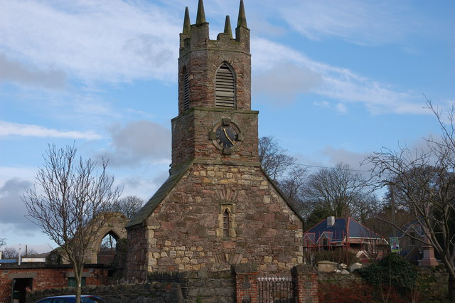 The Priory, Holywood The Priory stands at the Bangor end of High Street surrounded by modern development. It was built as a parish church in about 1200. It later became a Franciscan friary, reverting to the status of a parish church after restoration in 1615. It became disused in the middle of the 19th century when replaced by a new parish church.